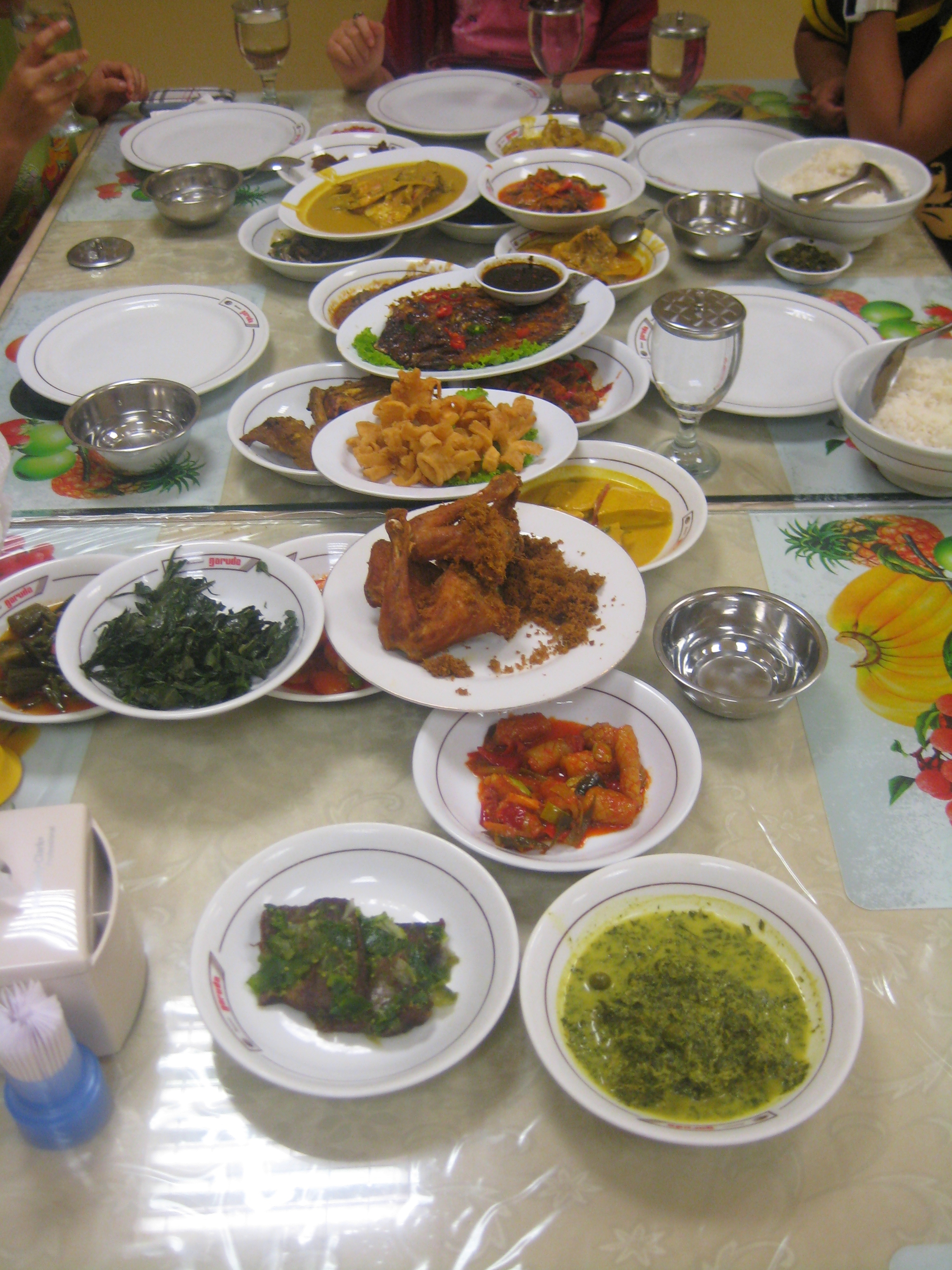 Table full of dishes at a Padang restaurant